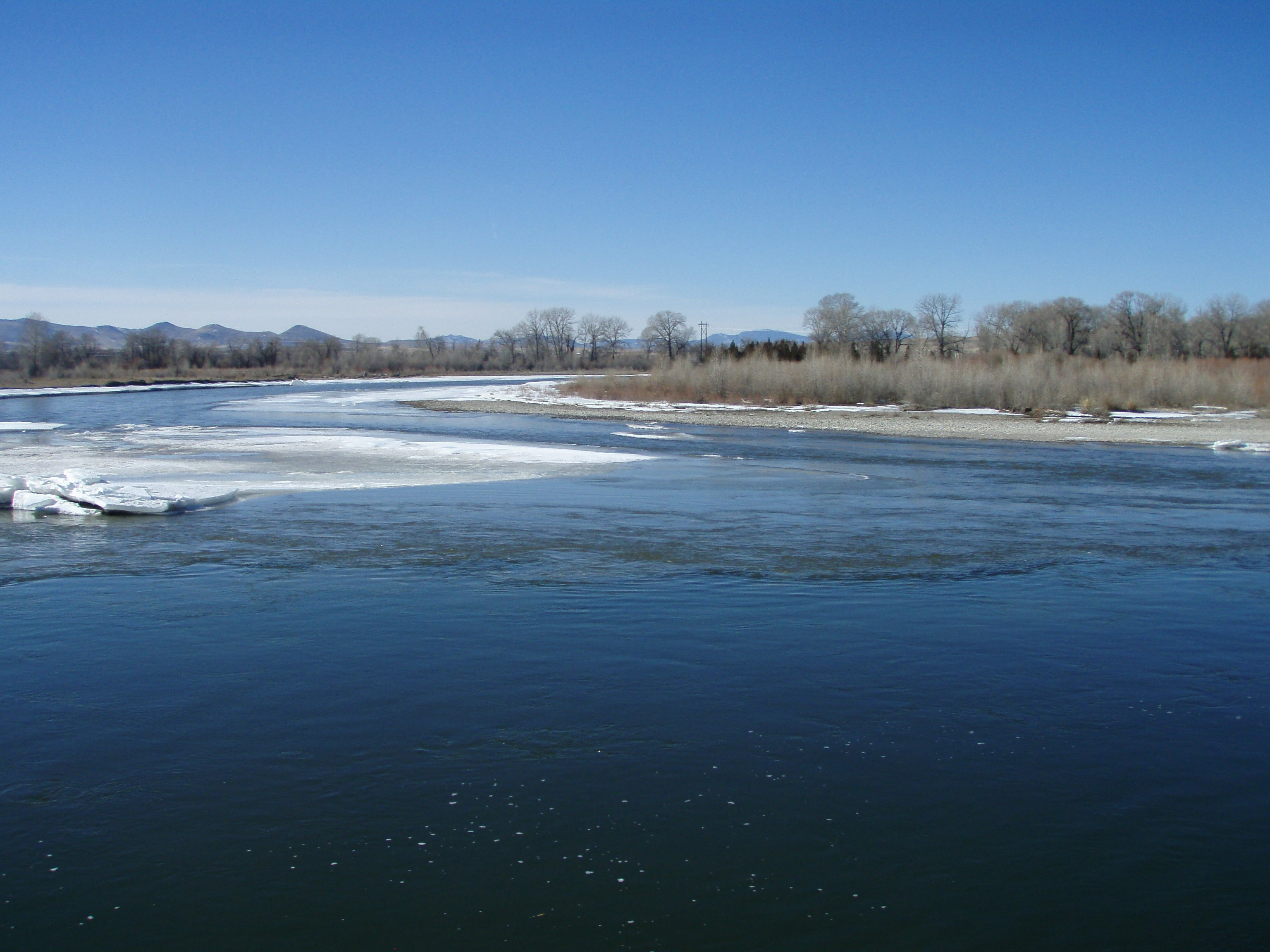 Confluence of the Madison River and Jefferson River — headwaters of the Missouri River in Montana. Located within the Missouri River Headwaters State Park, near Three Forks in Gallatin County, Montana. On the National Register of Historic Places in Gallatin County.